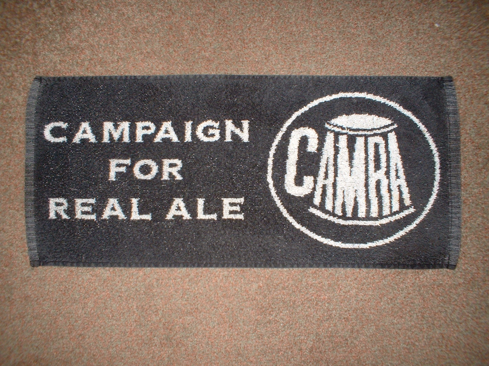 CAMRA commemorative bar towel